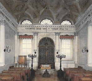 sinagoga